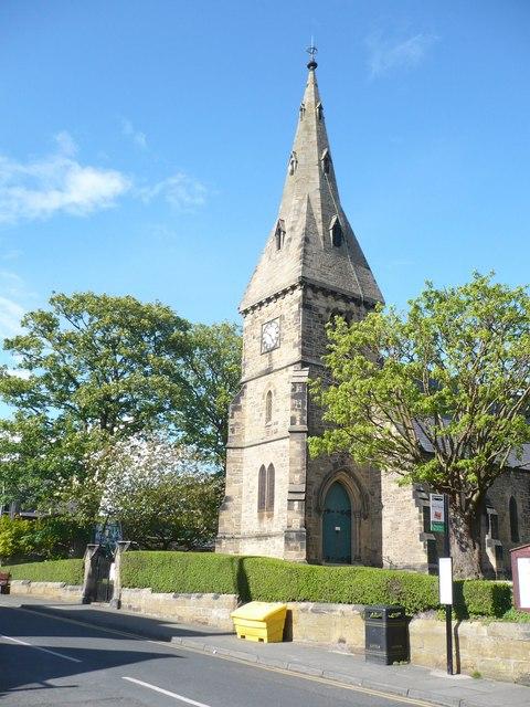 The church of St. John, Alnmouth Situated in Northumberland Street.